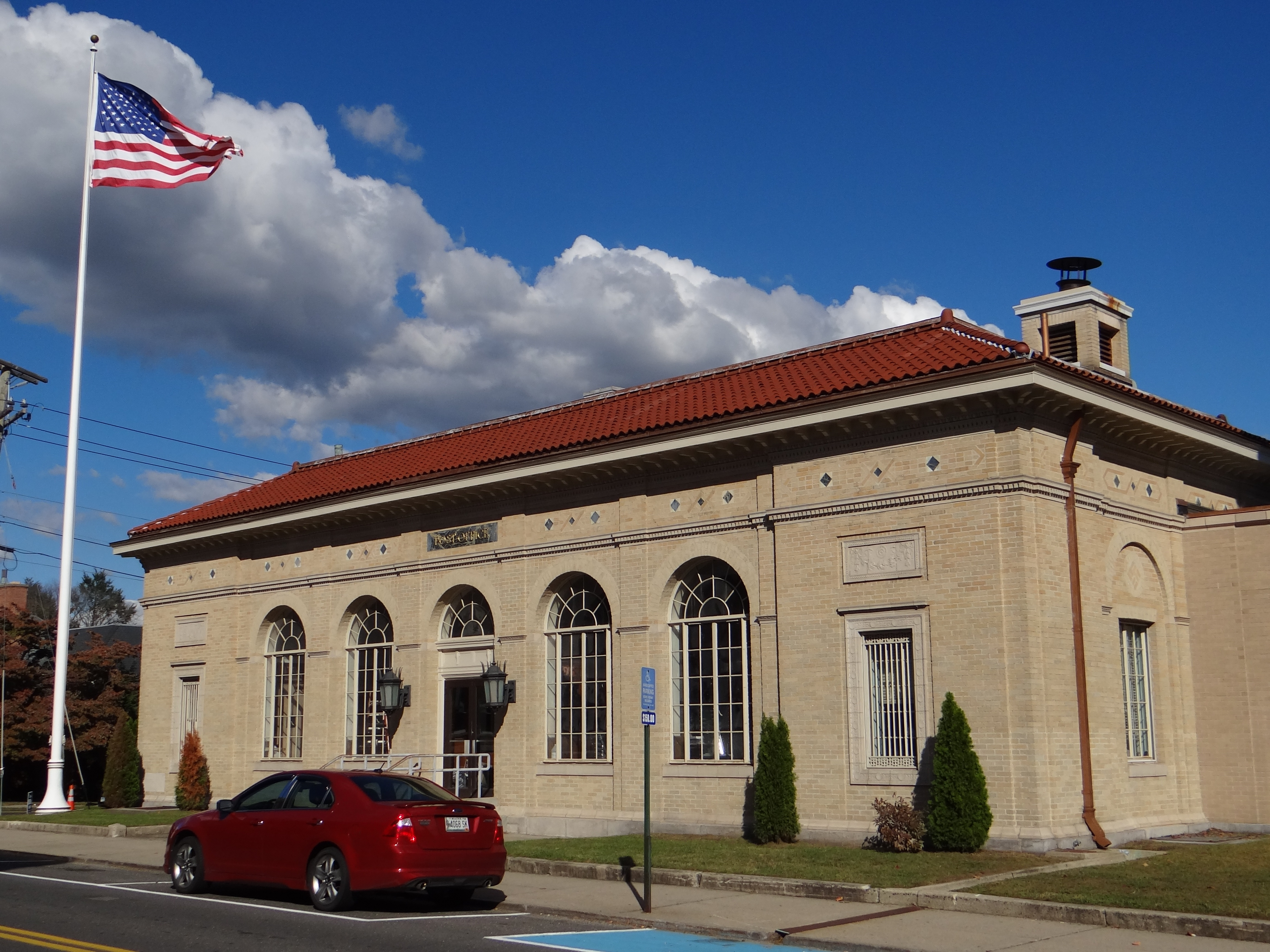 US Post Office-Naugatuck Main, Church and Cedar Sts. Naugatuck